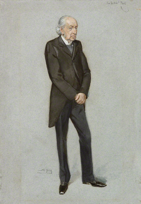 Men of the Day No.0902: Caricature of Sir Frederick Peel Bt PC. Caption reads: "a Railway Commissioner"